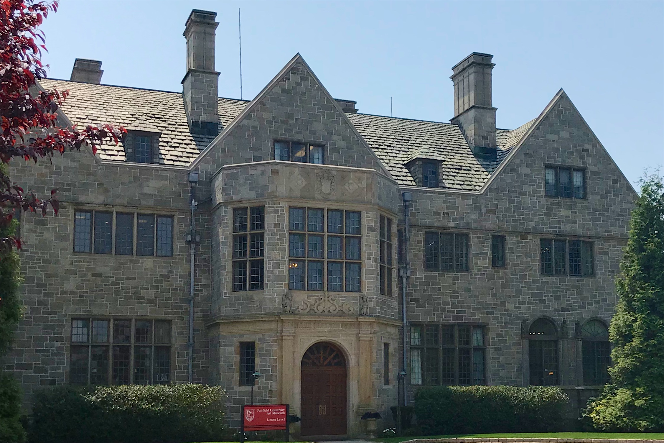 Entrance to Bellarmine Hall on the campus of Fairfield University in Fairfield, Connecticut. Home to the Fairfield University Art Museum.